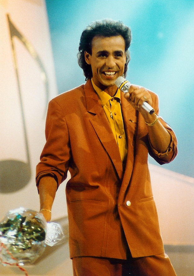 Ibo, german Schlager-singer